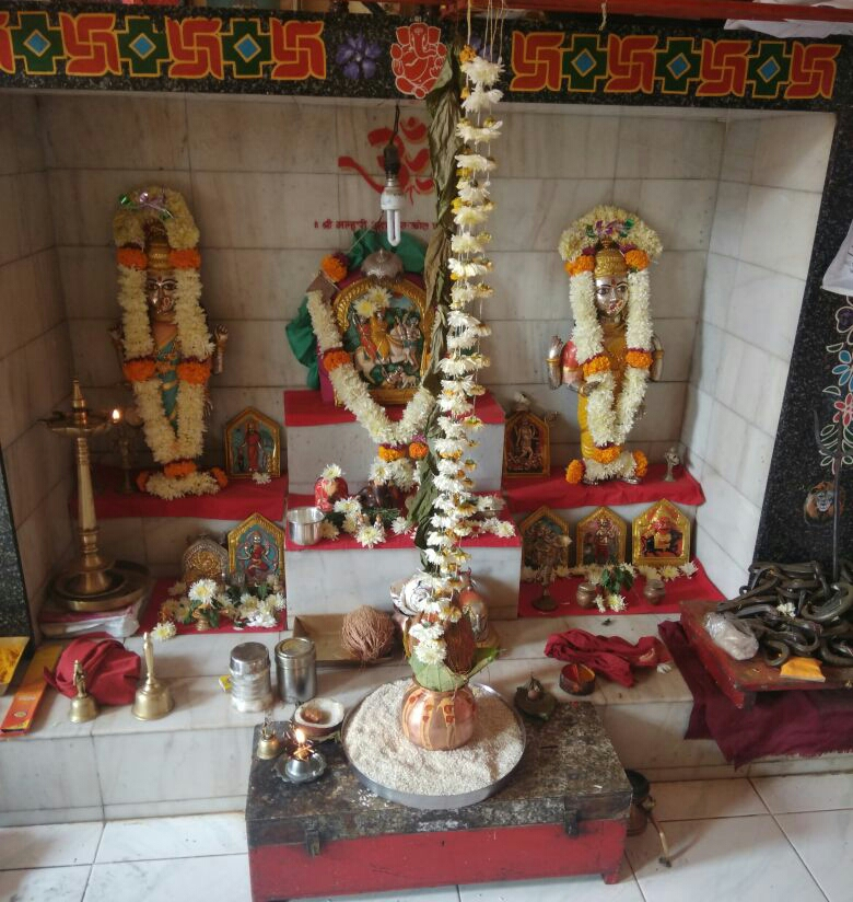 khandoba navaratra ghat